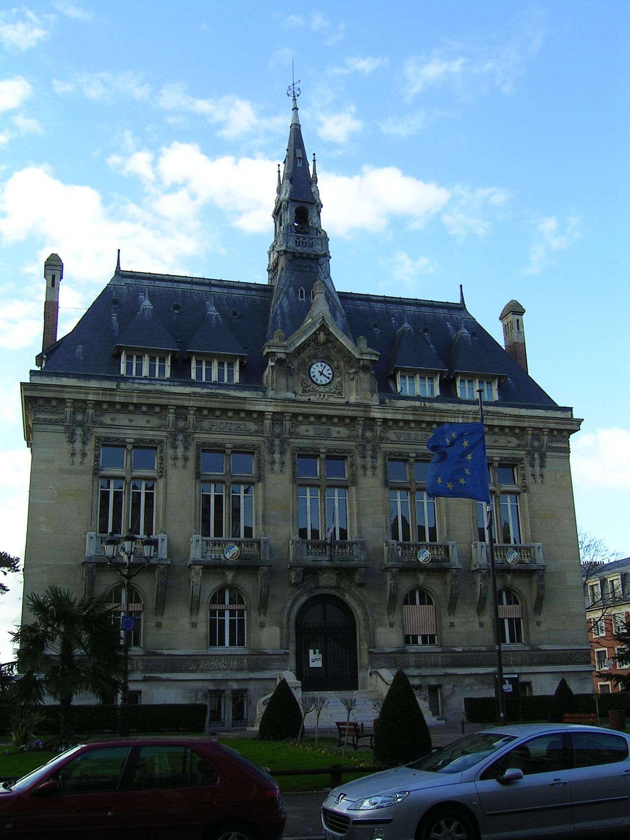 Mairie du Raincy Photo personnelle (own work) de Marianna